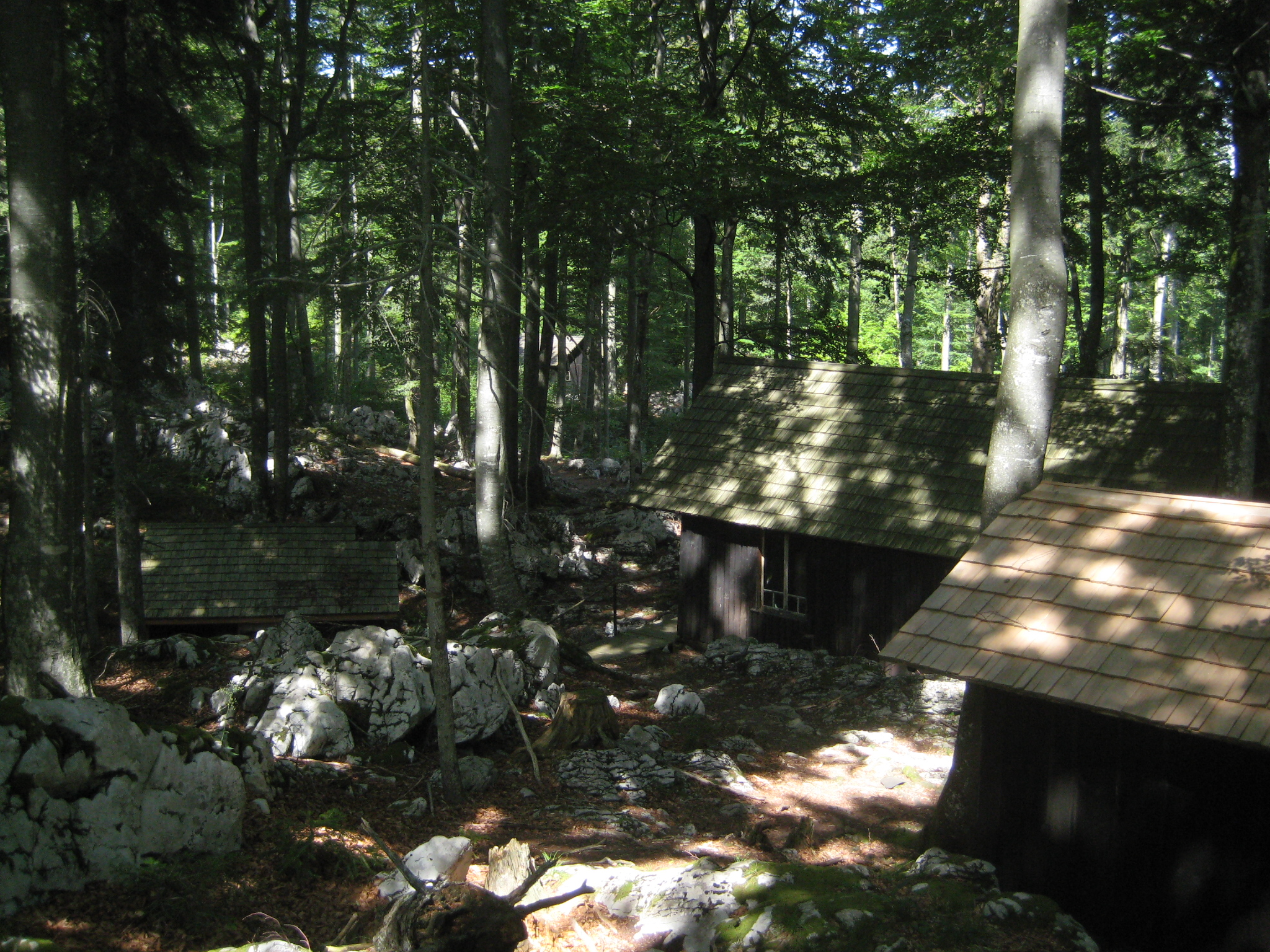 Baza 20, WW2 site in Slovenia